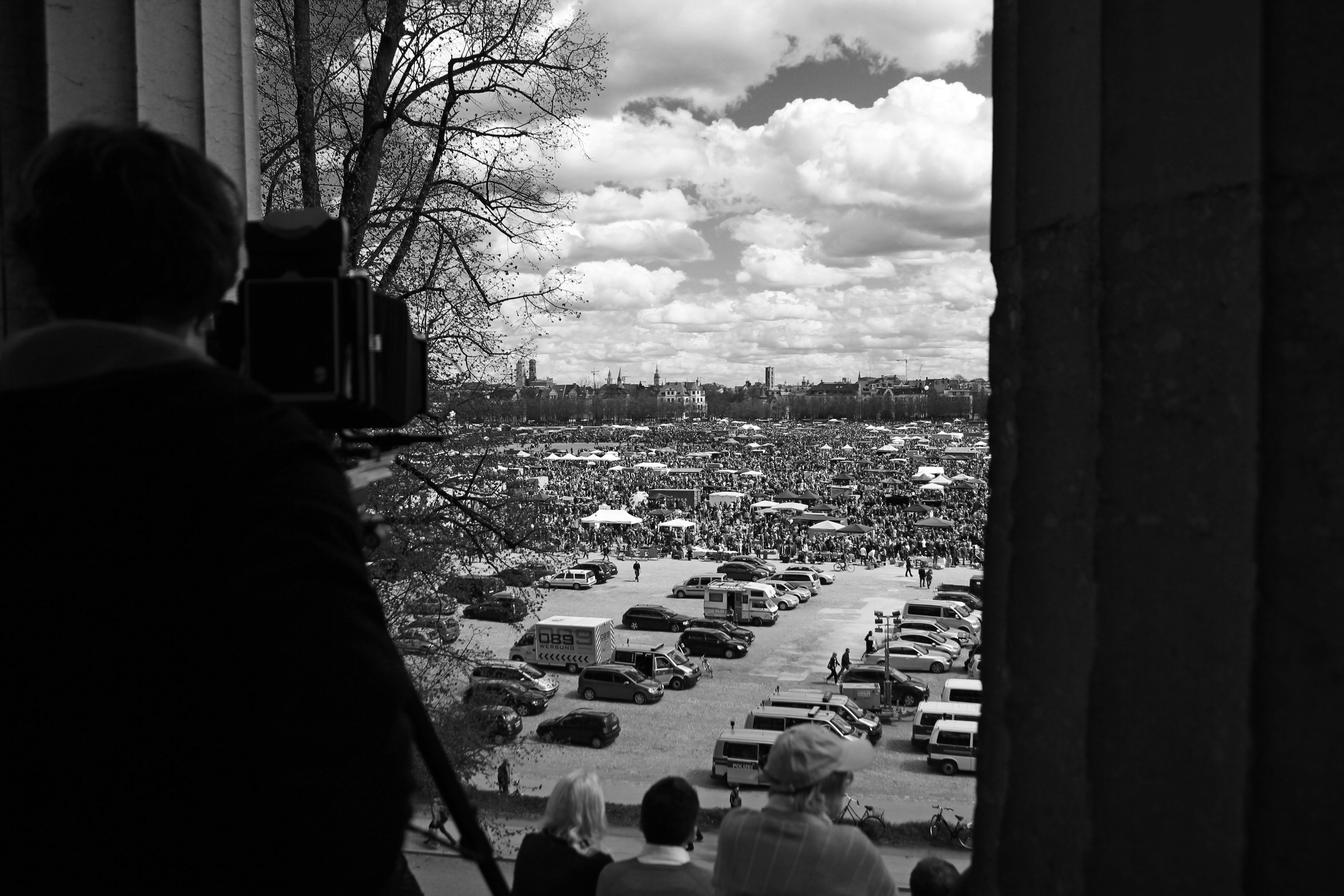 Flea market on the Theresienwiese in Munich